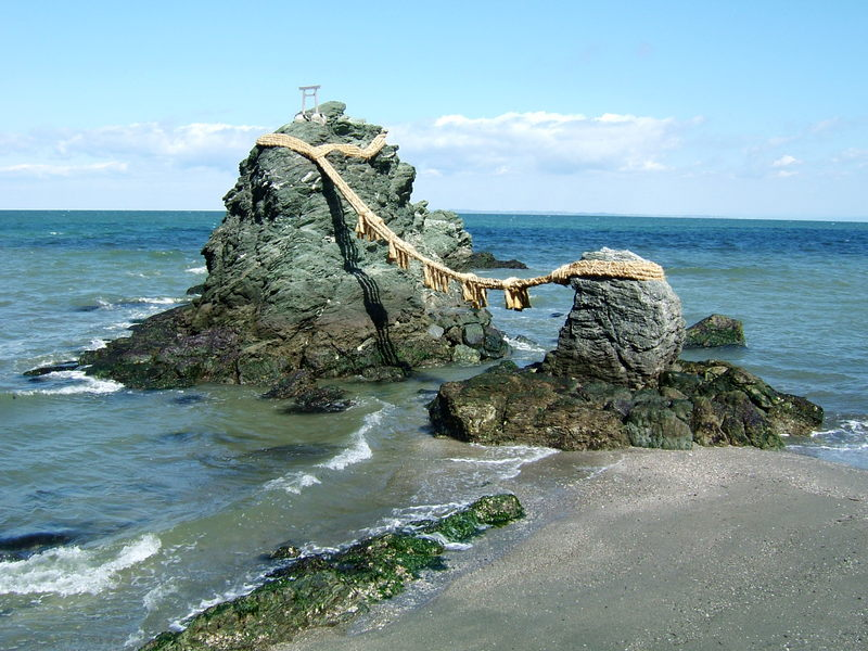 Meoto Iwa, the wedded rocks near Ise